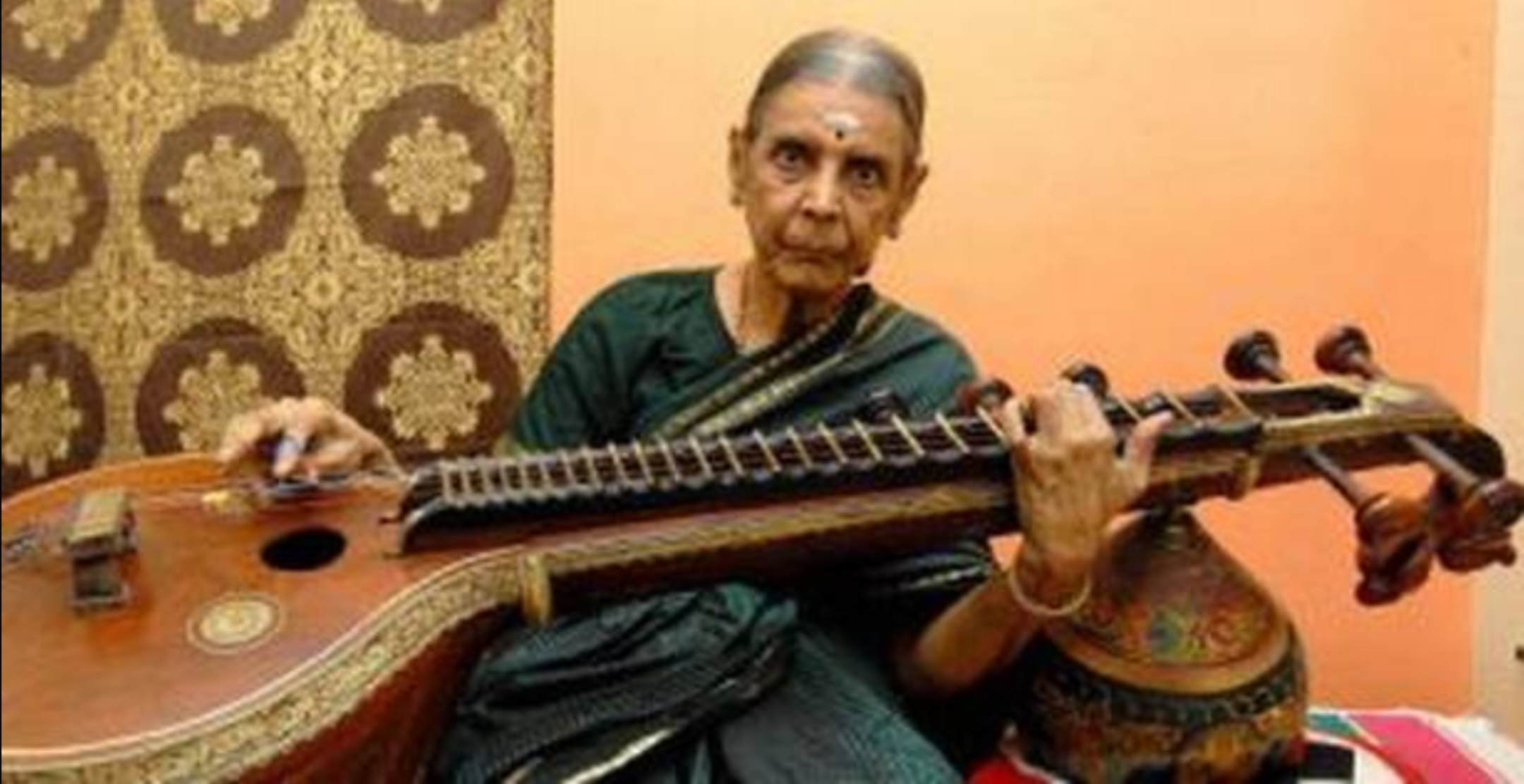 Image of Veenai Smt.Ranganayaki Rajagopalan